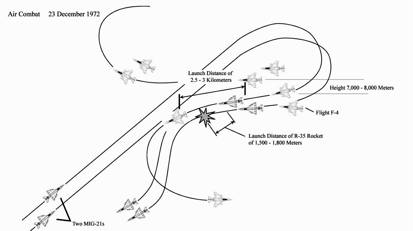 Linebacker II – Air Combat 23 December 1972.